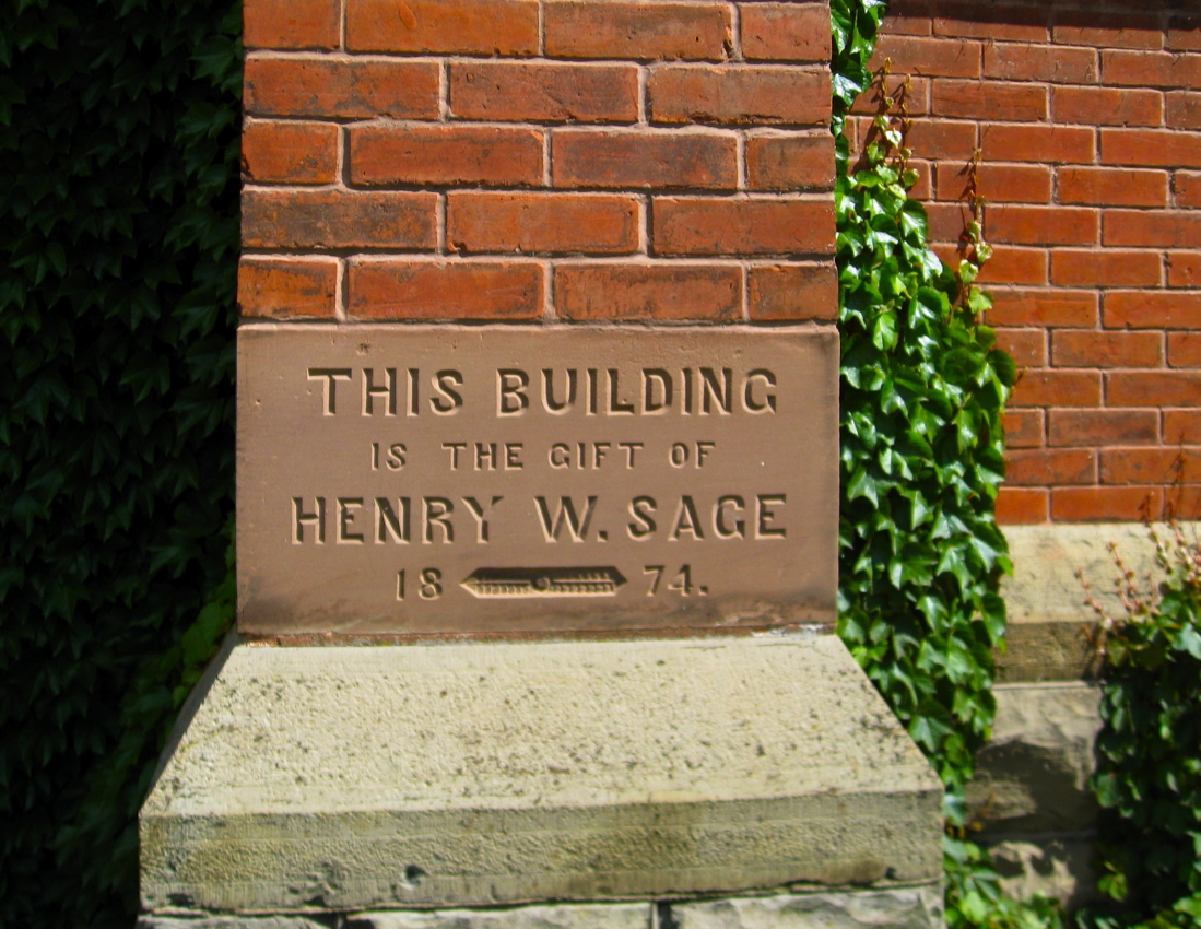 Sage Chapel cornerstone, Cornell University, Ithaca, New York, United States of America